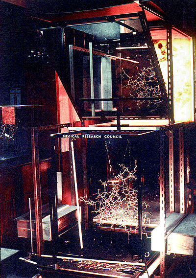 Photograph of the original "Richards box" built by Frederic M. Richards at Oxford in 1968. It uses a half-silvered mirror at 45° to visually superimpose an image of the sheets of crystallographic electron-density contours onto the molecular model of the protein being built in the lower compartment. The photo was given by Richards (now deceased) to Eric Martz in 2001, with provision to make it publicly available.